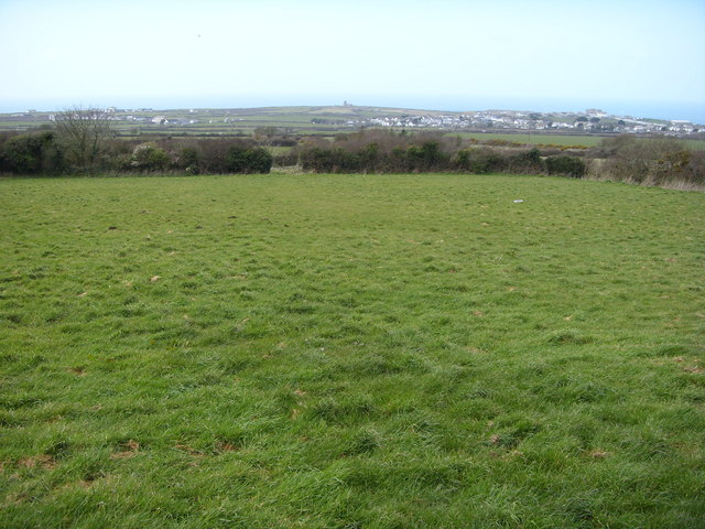 Fields by Downrow; Tintagel in the distance on the right.